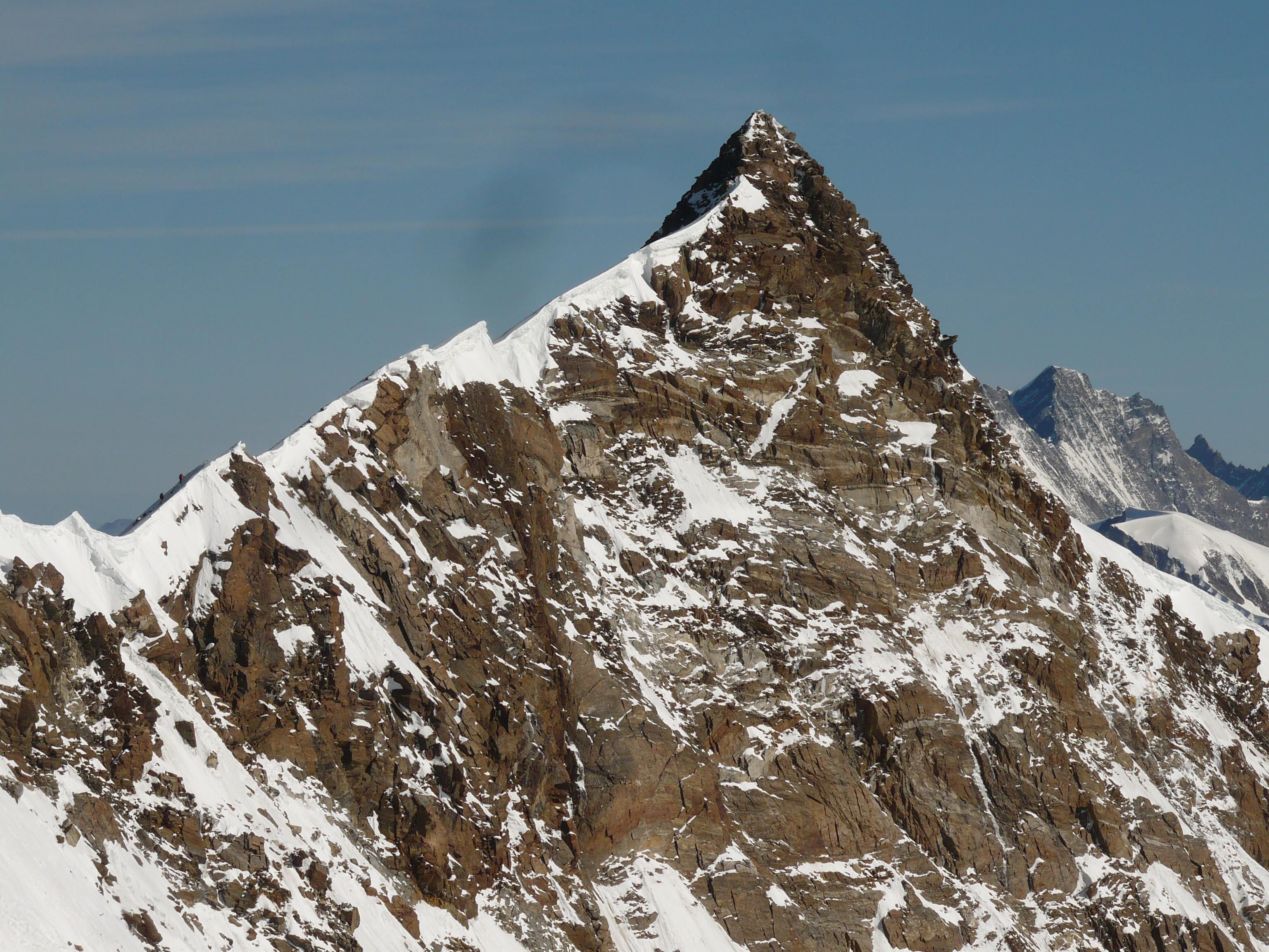 Nordend from Zumstein